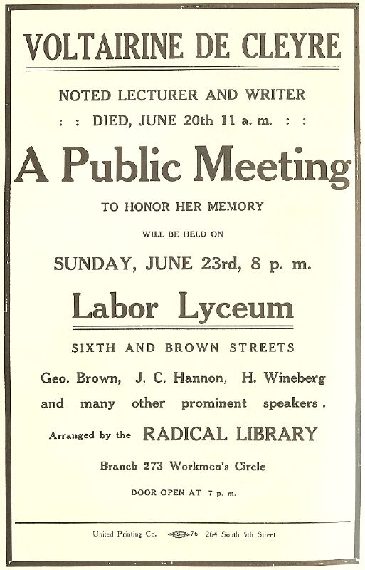 A poster advertising a memorial event, following the death of Voltairine de Cleyre Memorial, by the Radical Library, Philadelphia.